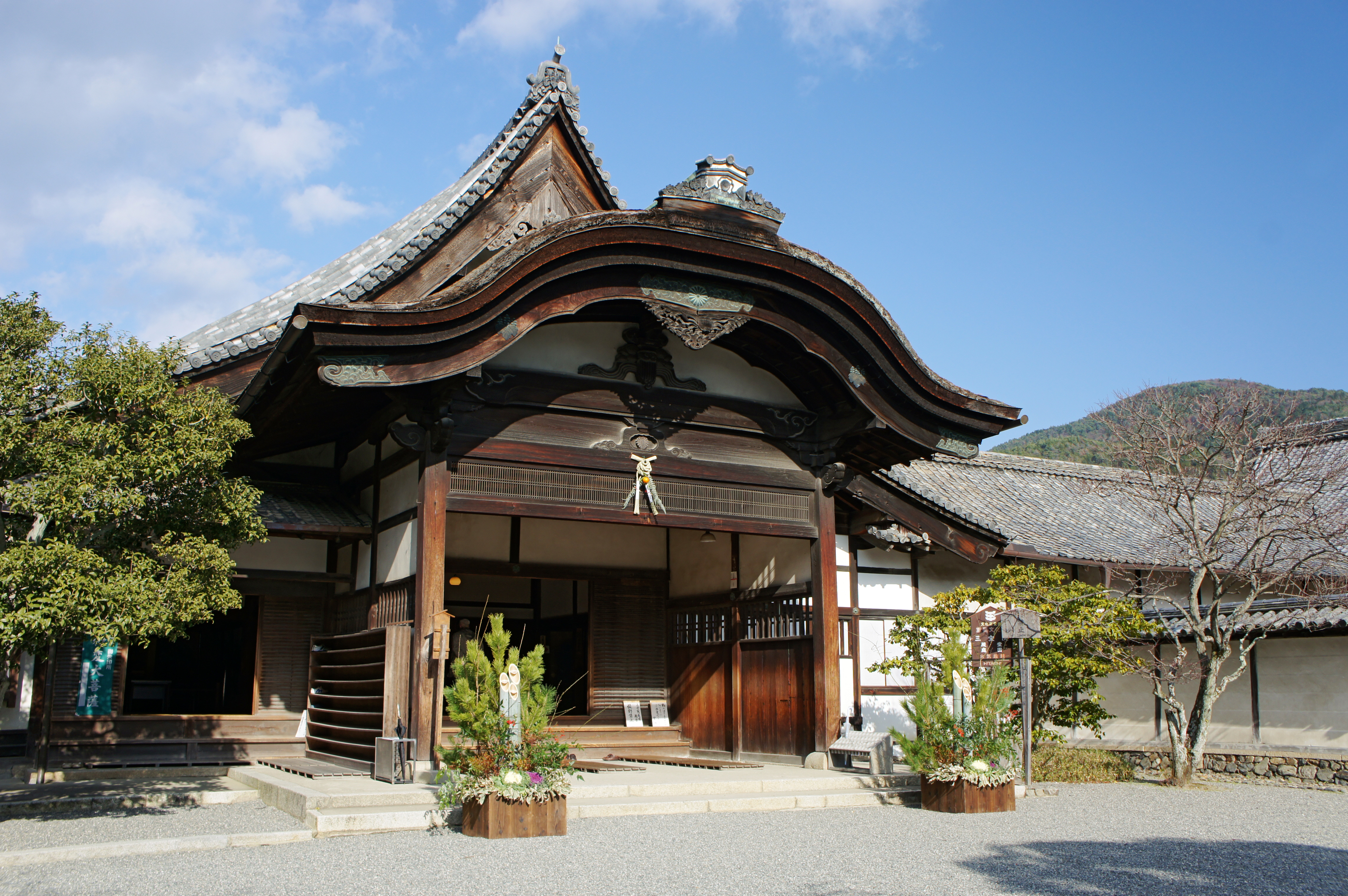 Sanbō-in in Fushimi-ku, Kyoto, Kyoto Prefecture, Japan. Daigo-ji including Sanbō-in was registered as part of the UNESCO World Heritage Site "Historic monuments of ancient Kyoto".